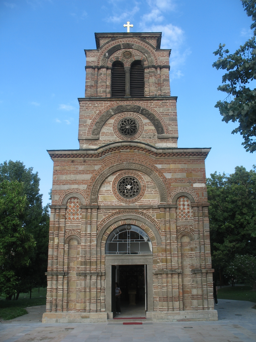 Crkva (church) Lazarica in Kruševac fortress in Kruševac, Serbia.